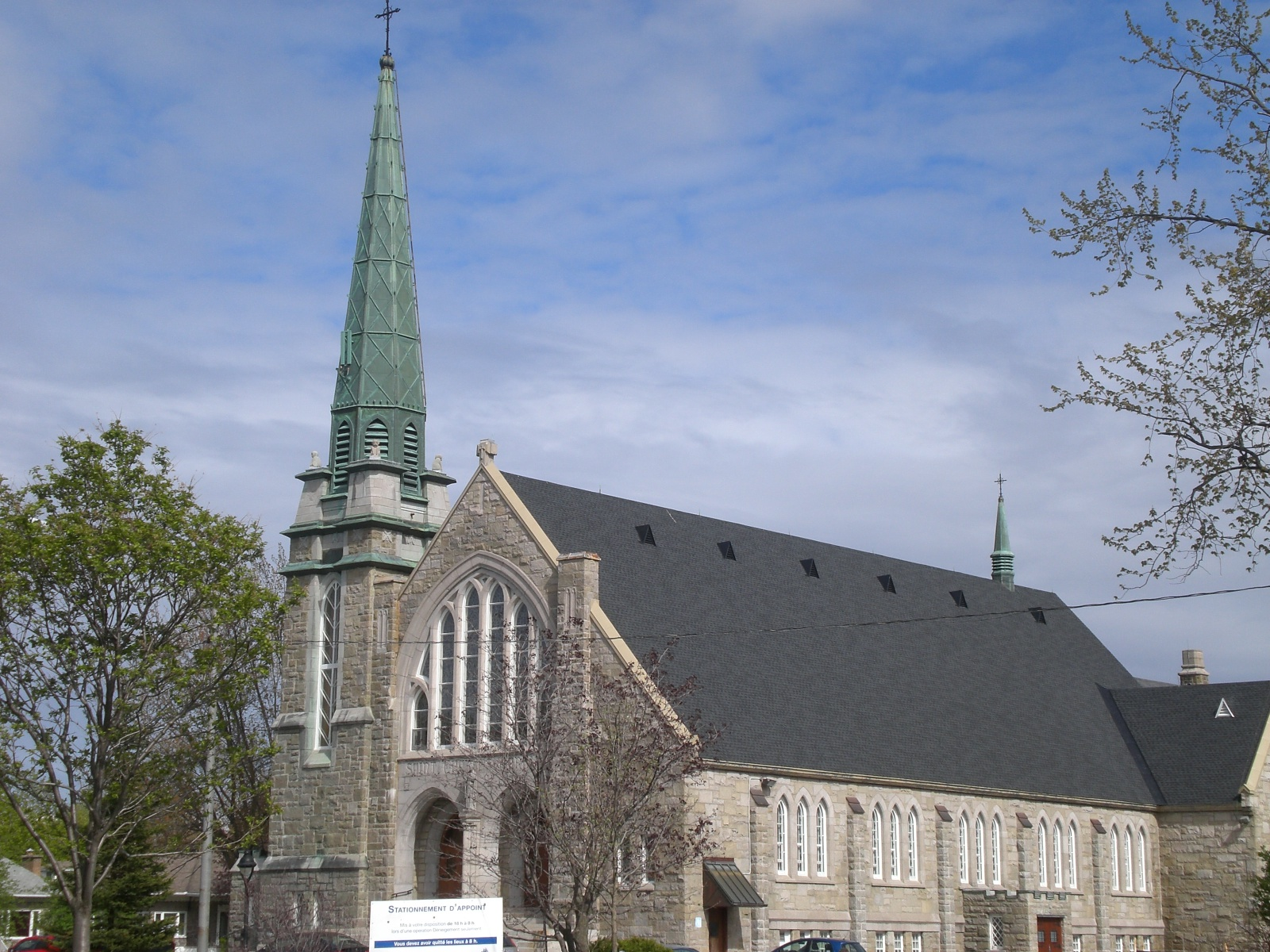 Photo of the west side of Église Saint-Charles-Garnier, Quebec